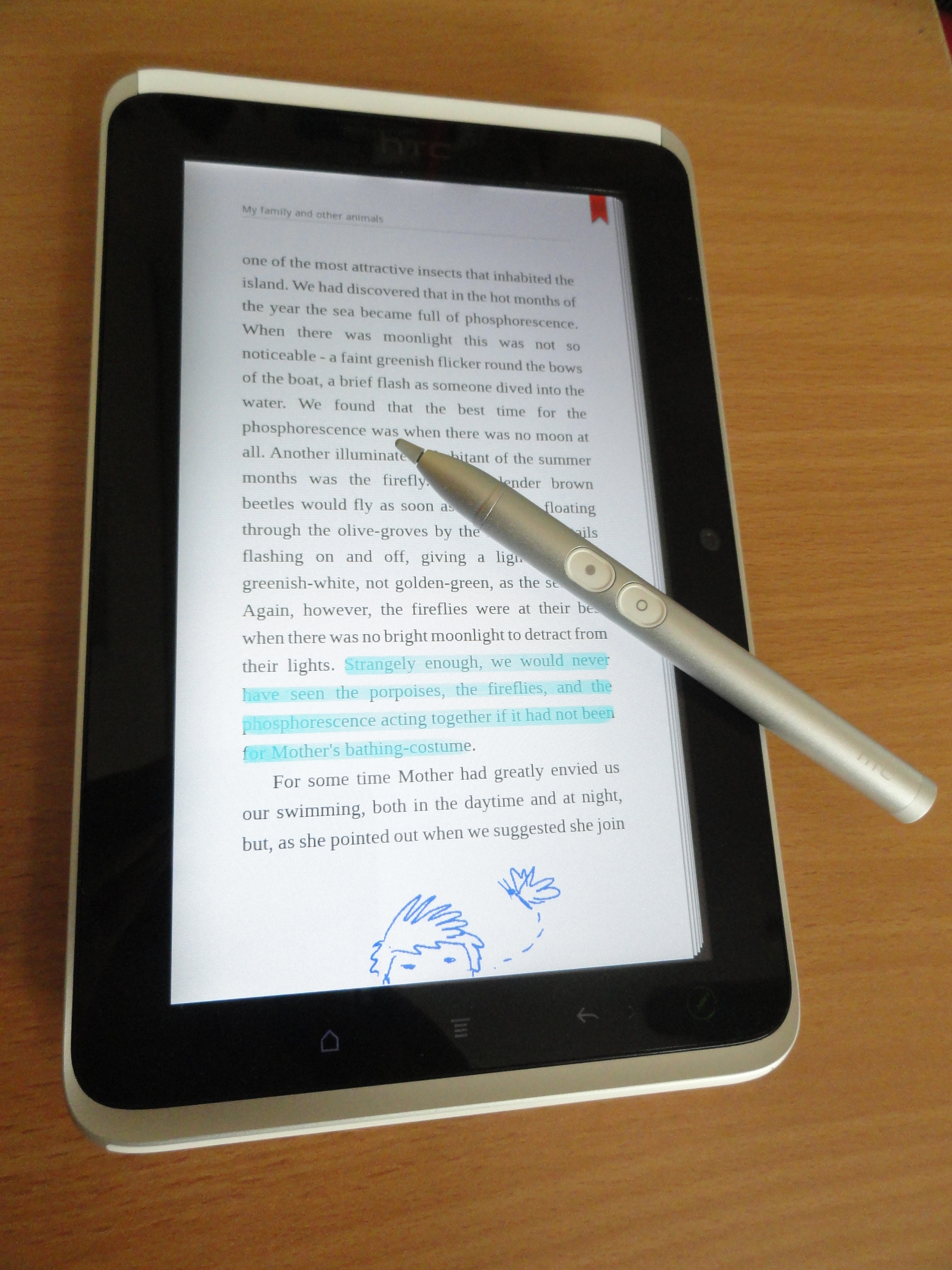 HTC Flyer with pen - Front